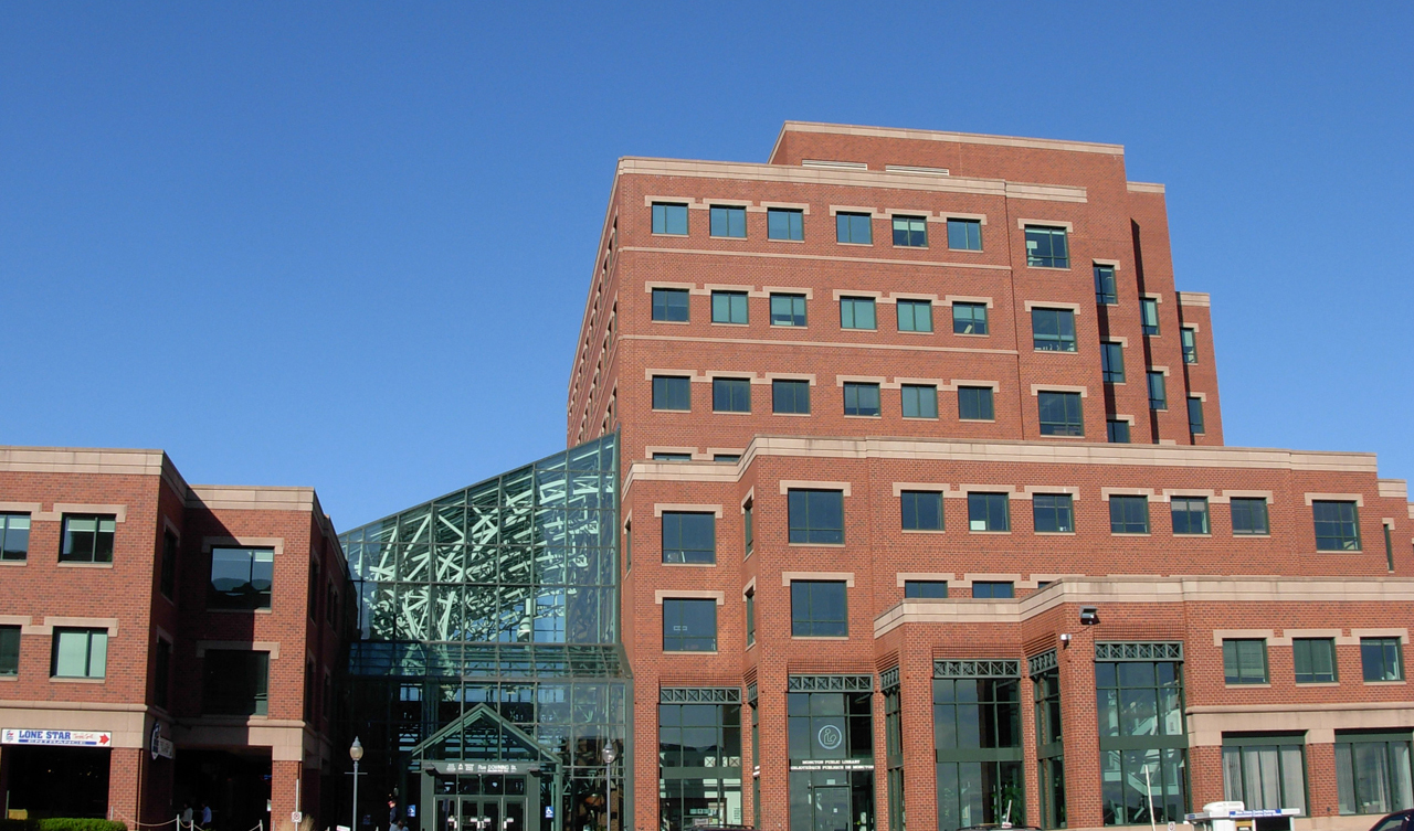 An image of the Blue Cross Centre in Moncton.